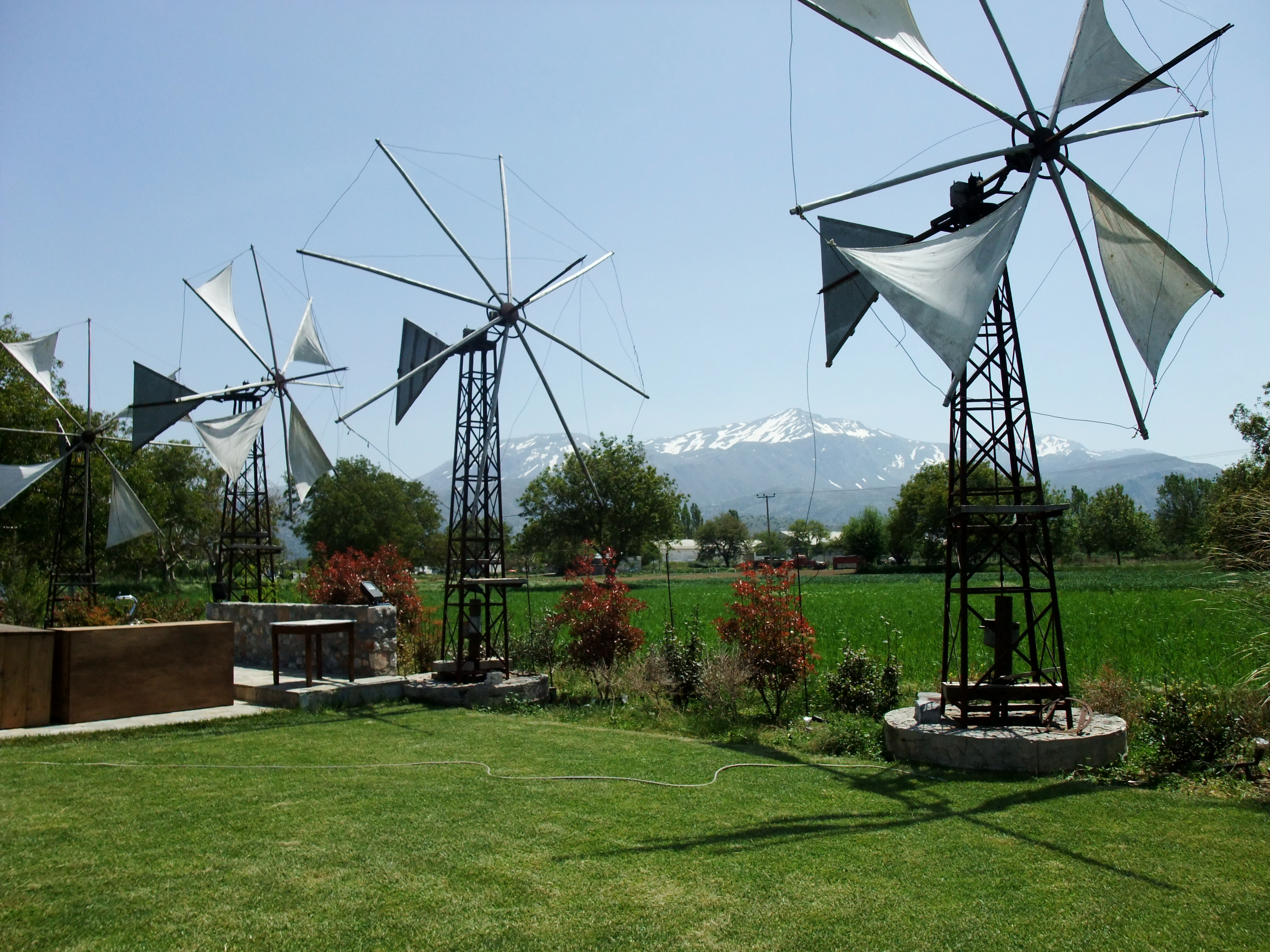 Windpumps in Agios Georgios, Lasithi Plateau, Crete, Greece